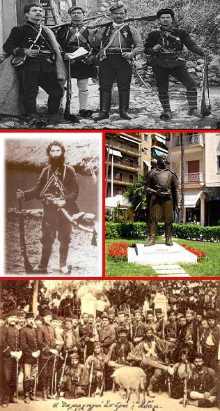 Montage for the Гръцка въоръжена пропаганда в Македония in Wikipedia.bg